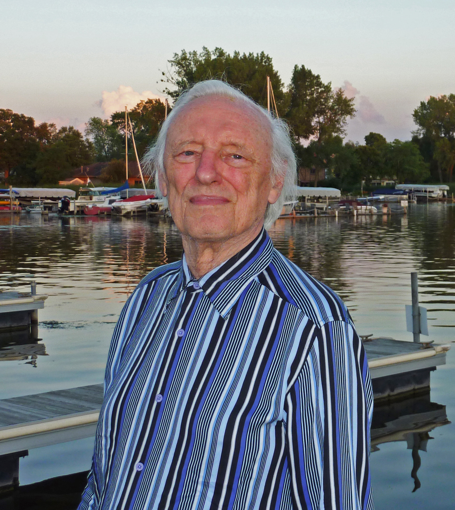 Jost Hermand, William F. Vilas Professor of German emeritus, photographed on the north shore of Lake Mendota in Madison, Wisconsin.